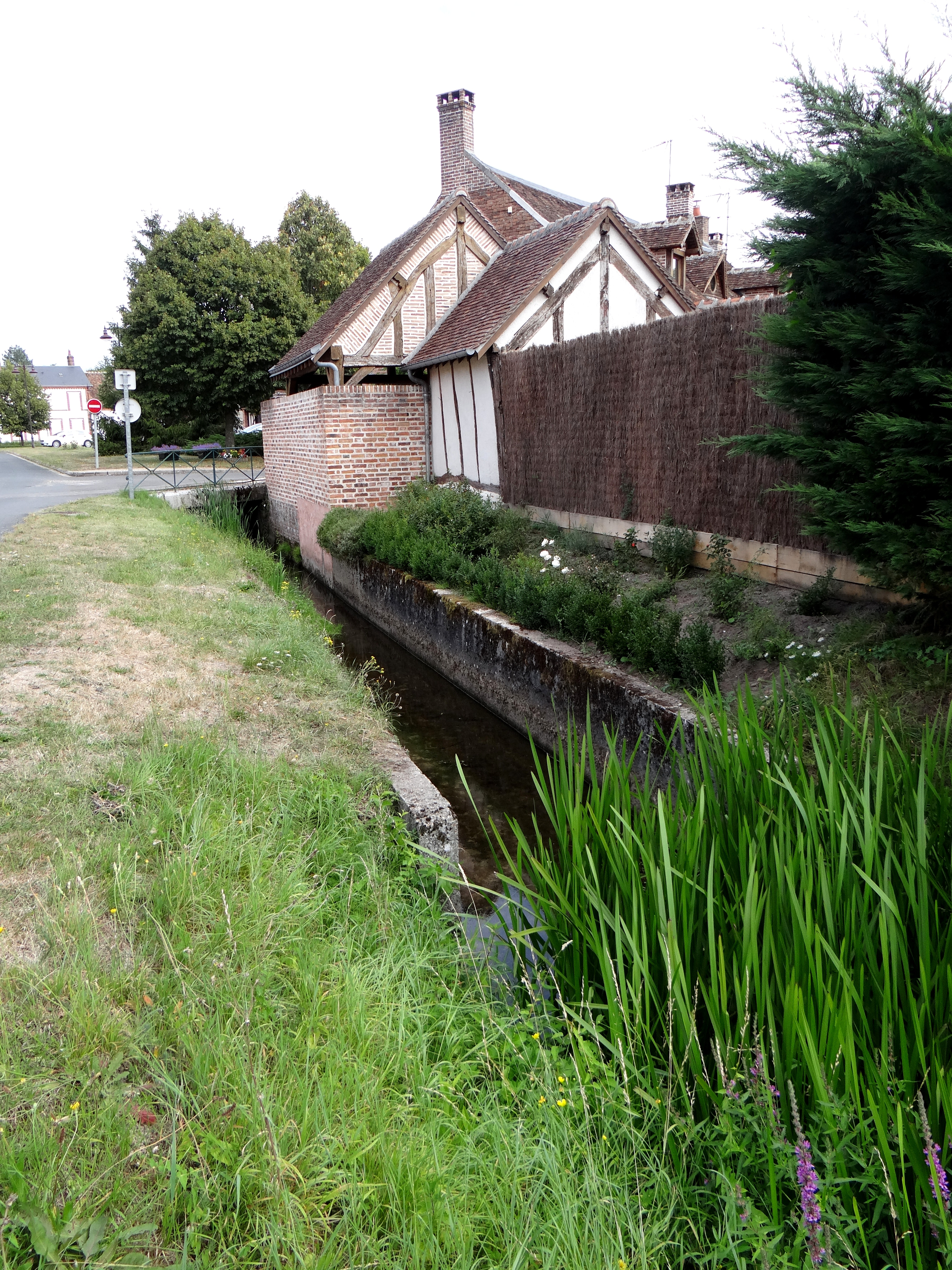 The River Loches, Chaon, Loir-et-Cher, France